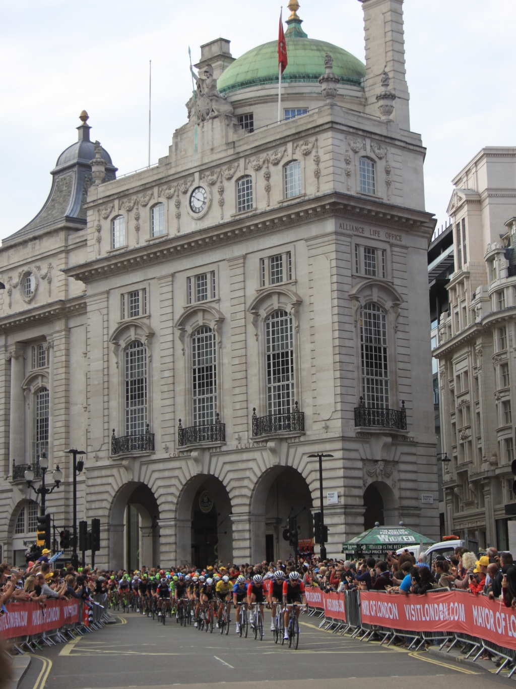 Team Wiggins leads the 2015 Tour of Britain through Piccadilly Circus on the second lap of the final stage in London. MTN-Qhubeka are close on their wheels.